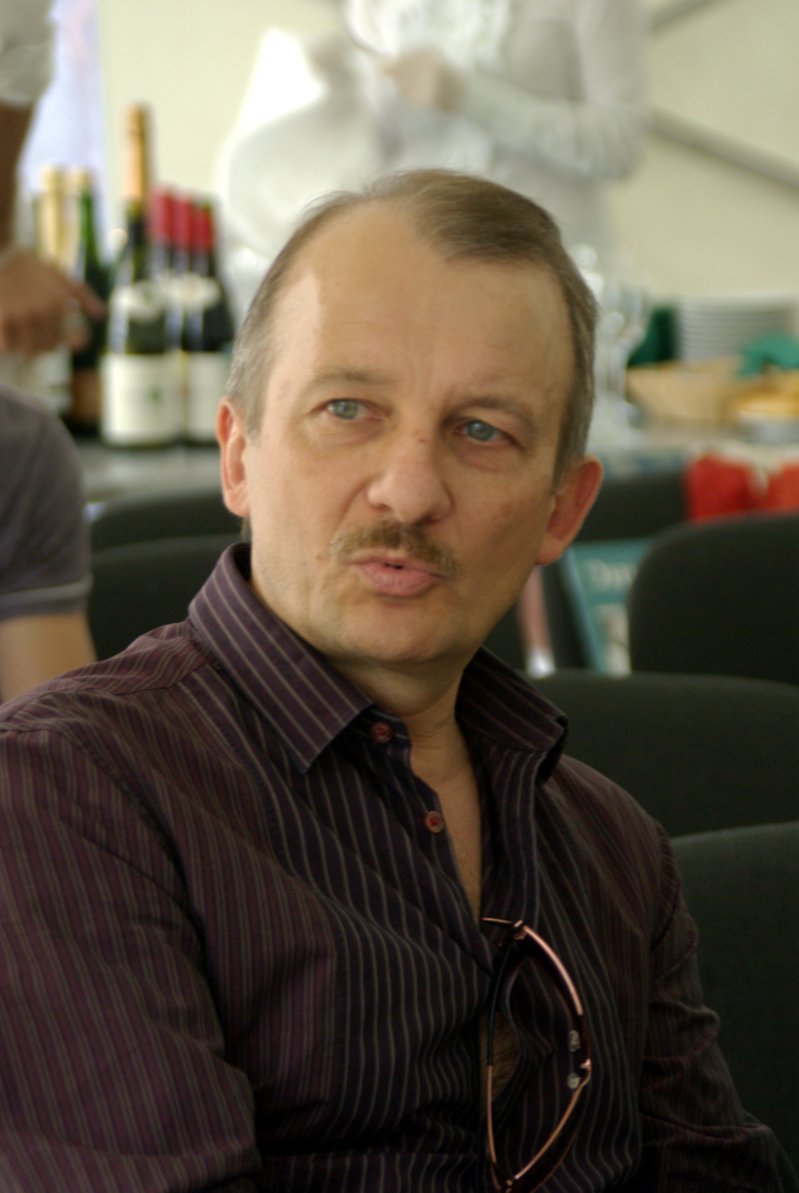 Russian economist Sergey Aleksashenko at the 6 Moscow Internacional Book Festival